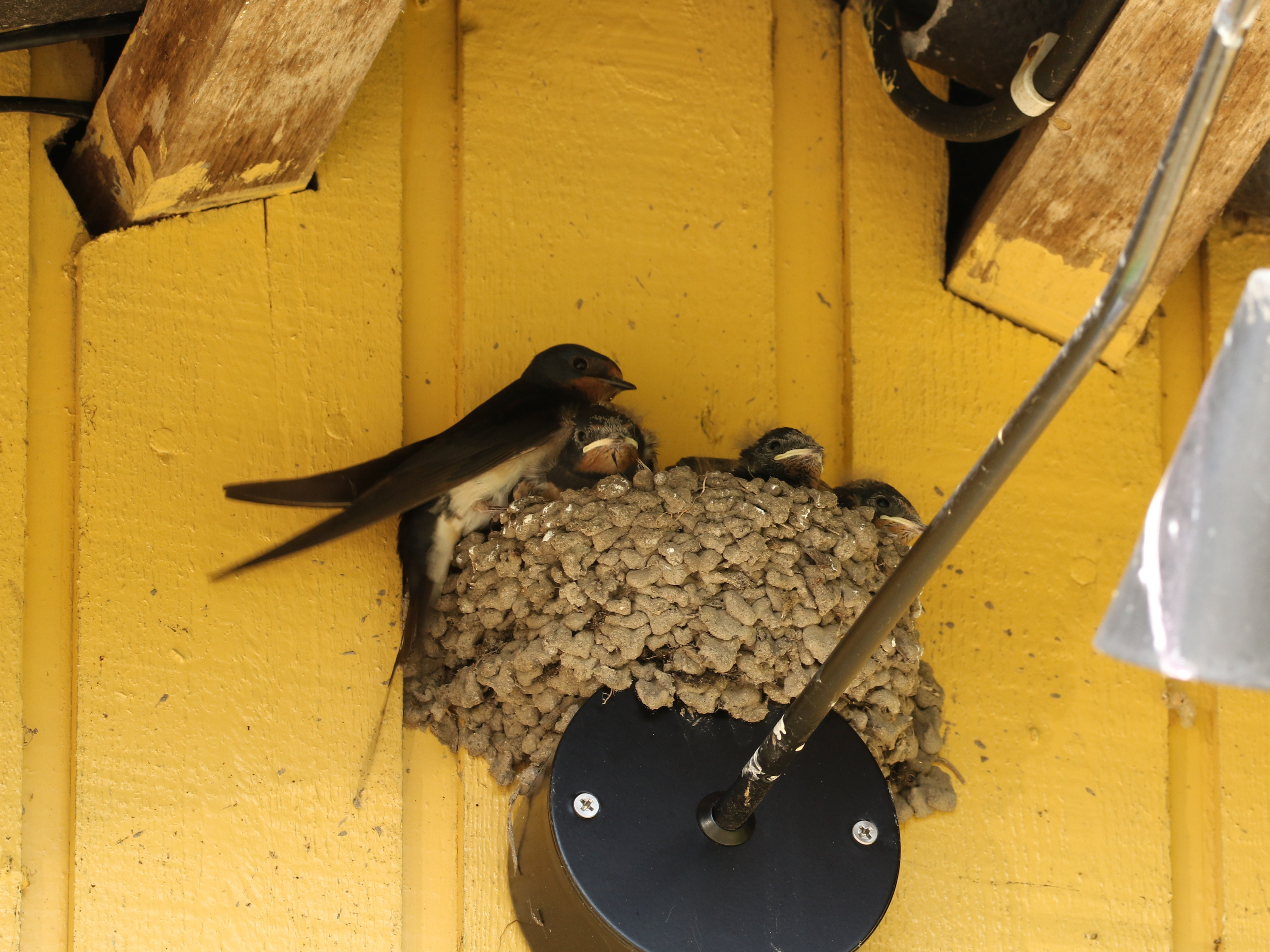 Hirundo rustica (Linnaeus, 1758), Barn Swallow, Møns Klint, Denmark, 18 July 2015